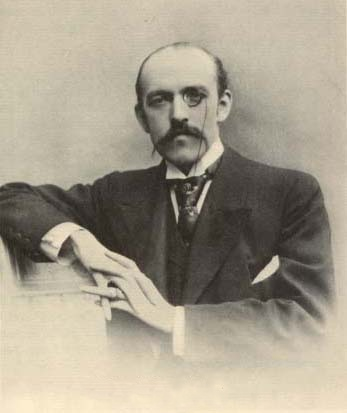 Henri de Régnier (1864-1936), French writer.